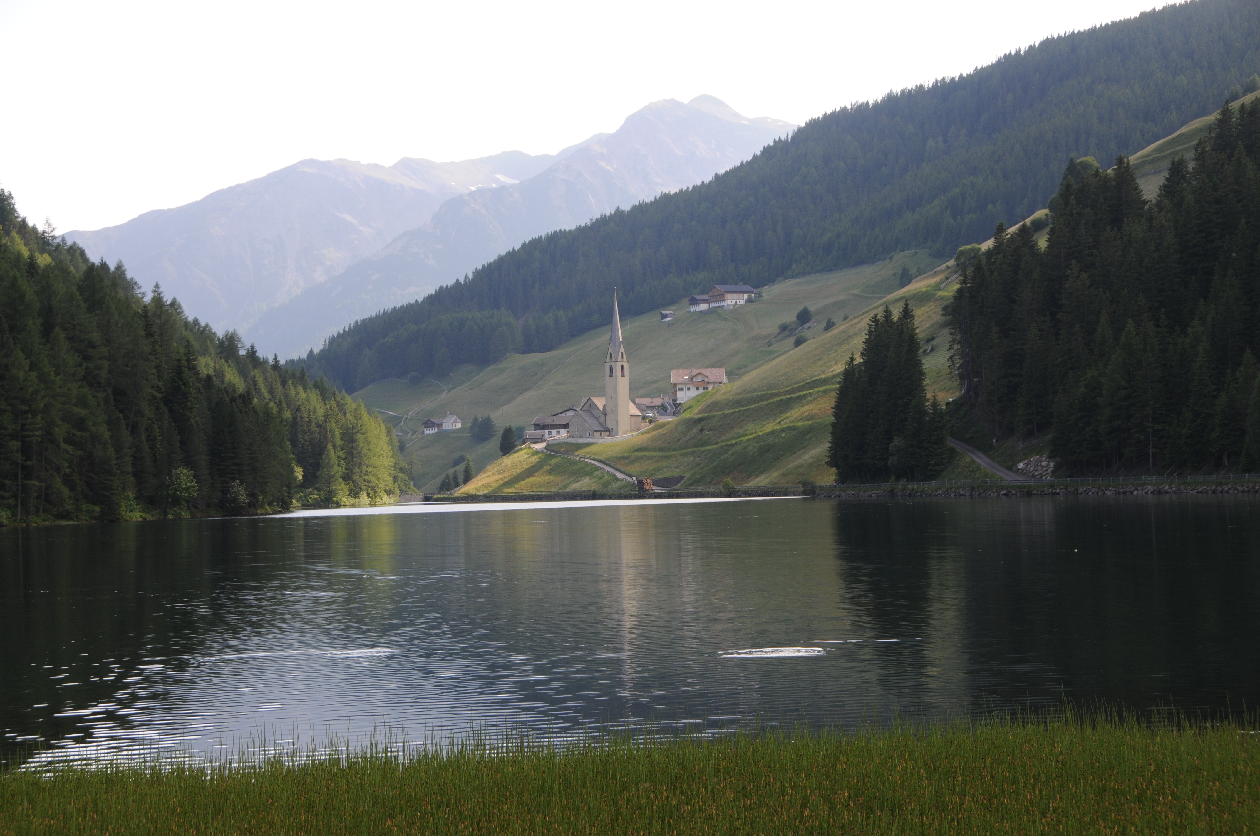 Lake of Durnholz (Lago di Valdurna), South Tyrol